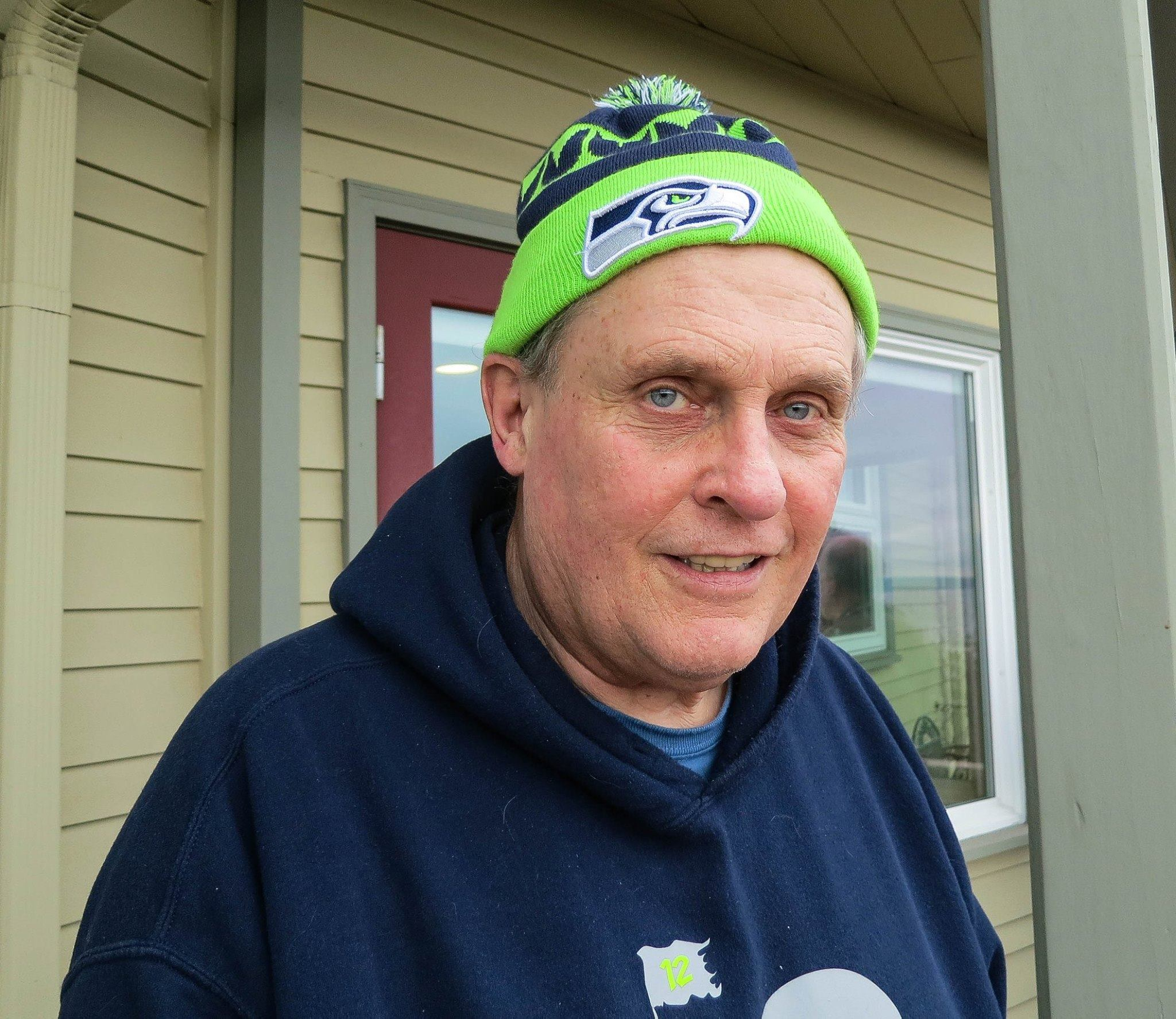 Taken at a Super Bowl party on February 1, 2015.